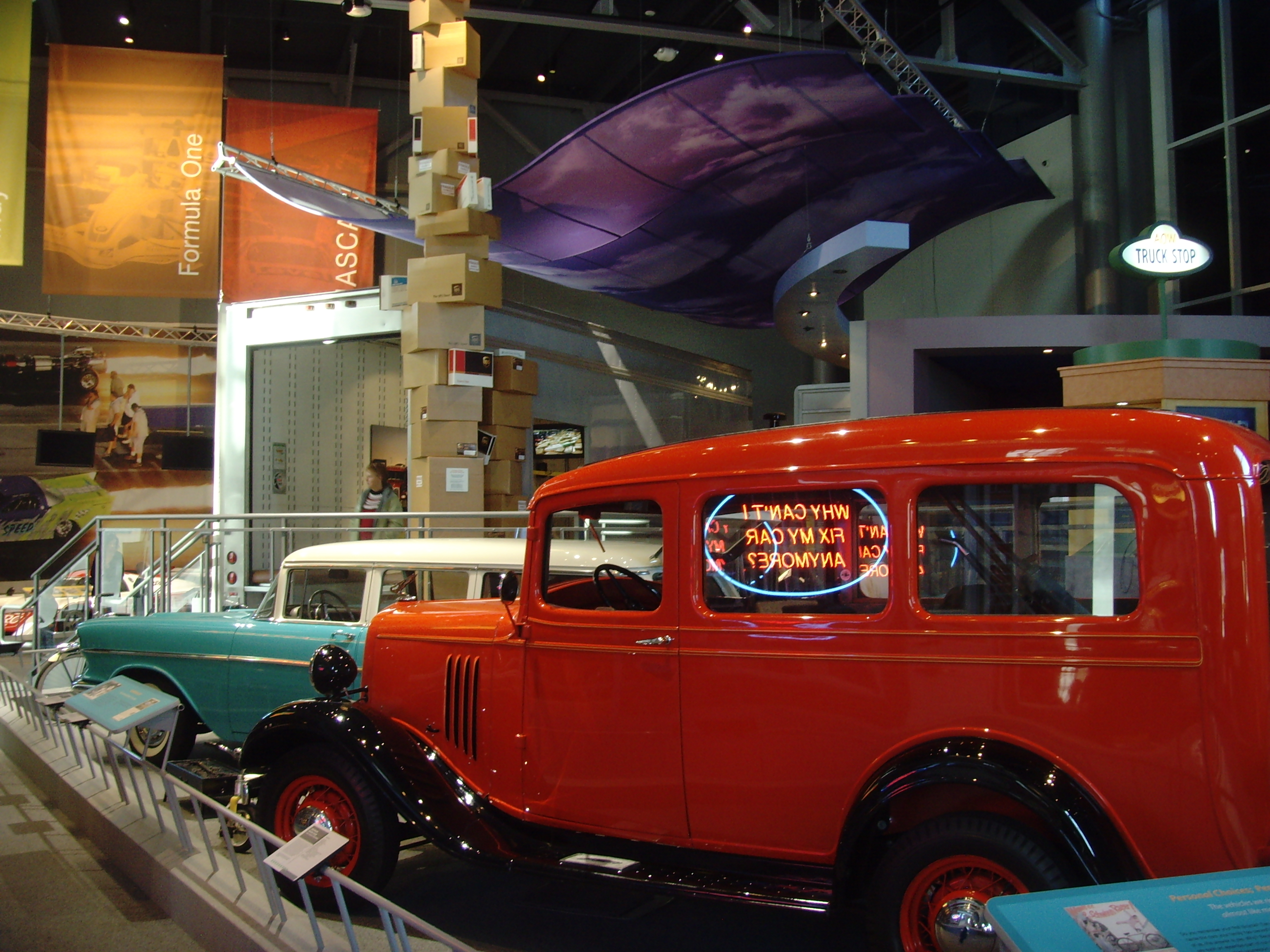 0083 Allentown - America on Wheels Auto Museum